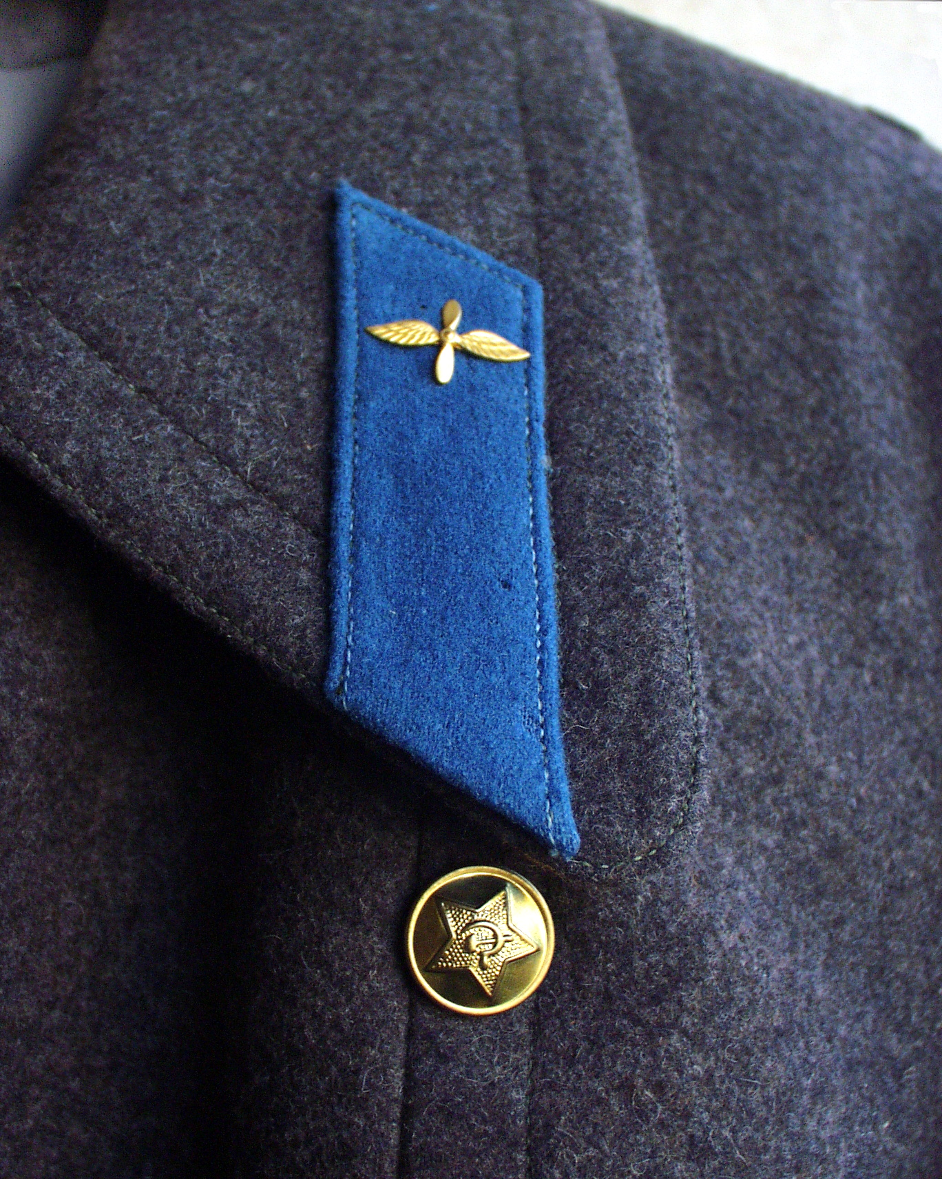 branch insignia of Soviet Air Force, collar patch on greatcoat.